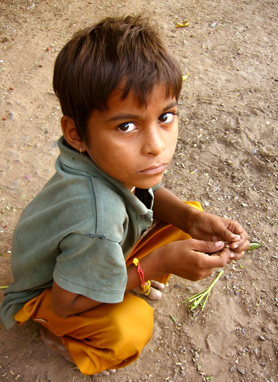 In the slum at Gulbai Tekra, Ahmedabad, India. (Yes, it's a boy despite the earring.)